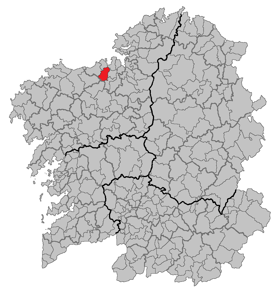 Location map of Culleredo, A Coruña, Galicia